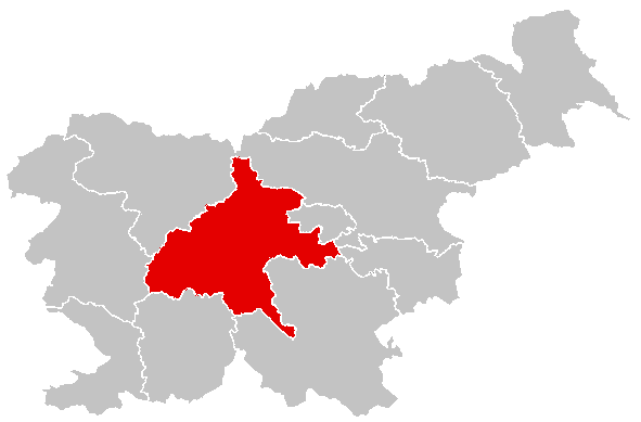 map of Osrednjeslovenska statistical region in Slovenia modified from File:Slovenian-regions-obalnokraska.png